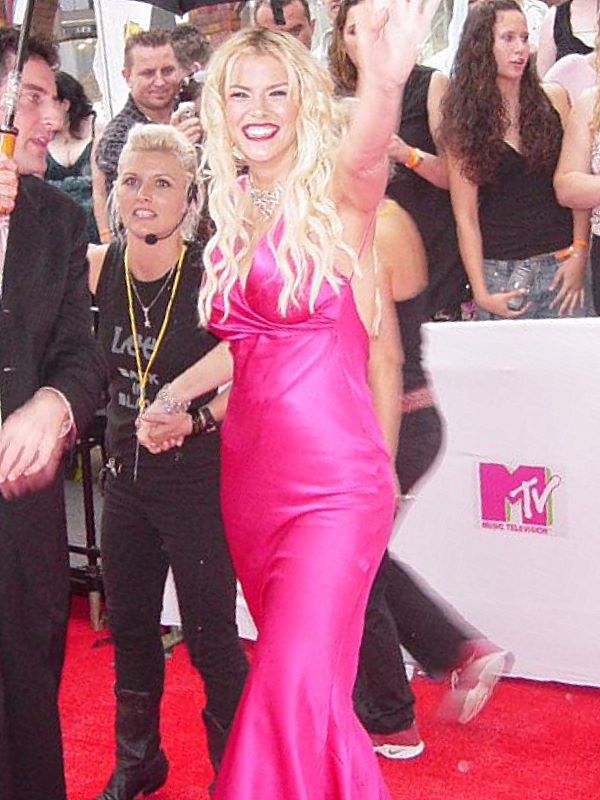 American actress Anna Nicole Smith. on the red carpet for 2005 MTV Video Music Awards